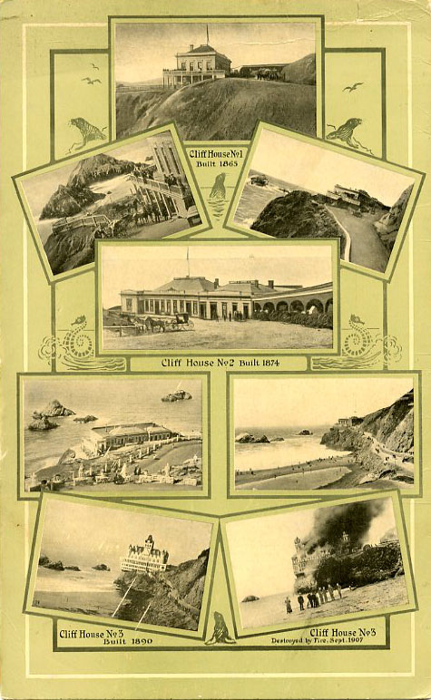 Repository: California Historical Society Digital object ID: CHS2013.1410 [b] Call number: MENU COL Collection: California menu collection Date: undated Preferred citation: Menu, Cliff House, San Francisco [back cover], California menu collection, courtesy, California Historical Society, CHS2013.1410 [b].jpg. Online finding aid